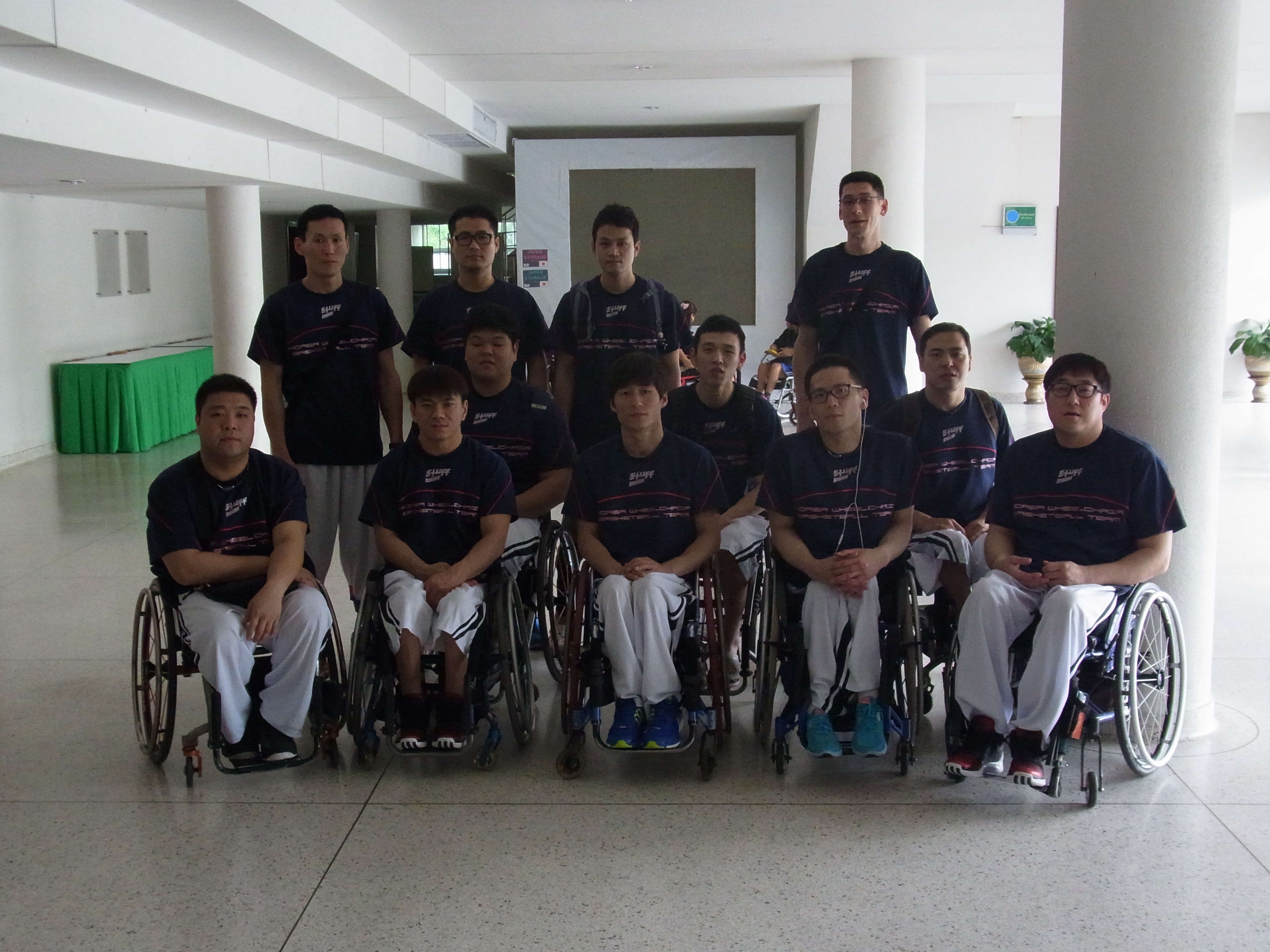 South Korea mens wheelchair basketball team 2013